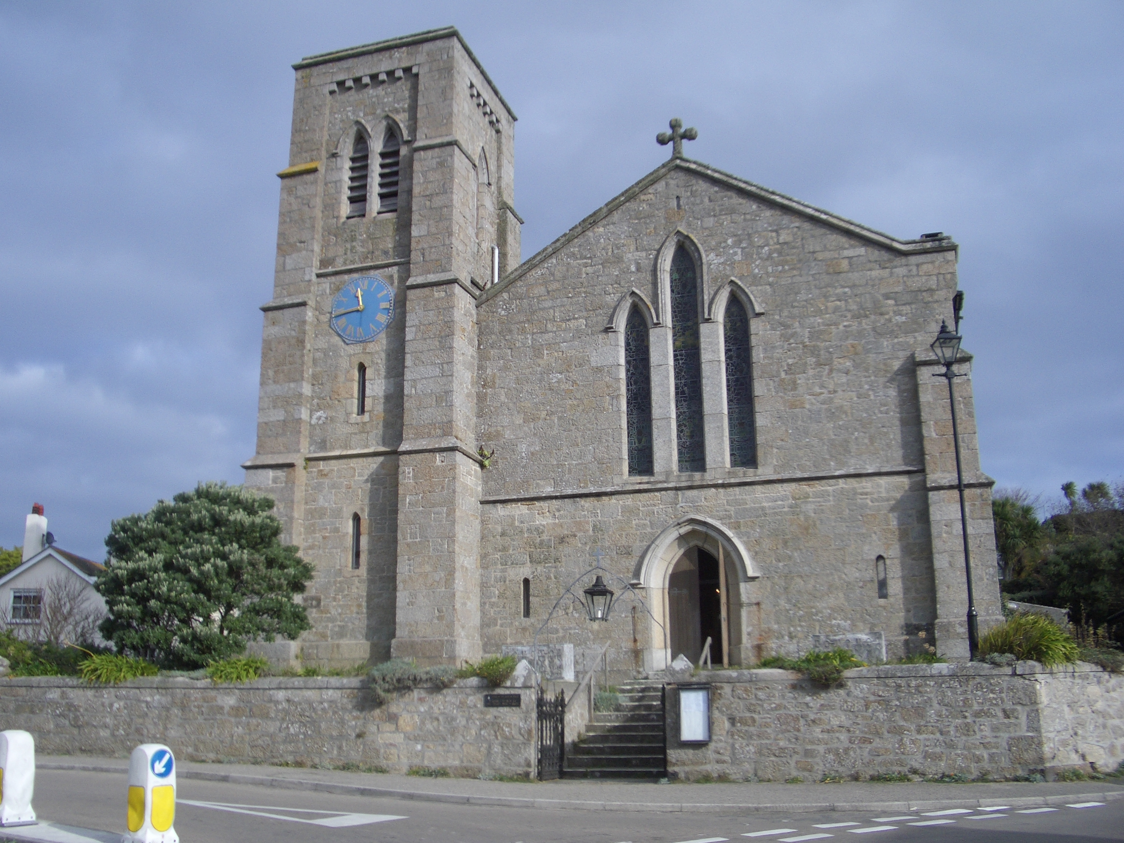 St Mary's Church, St Mary's